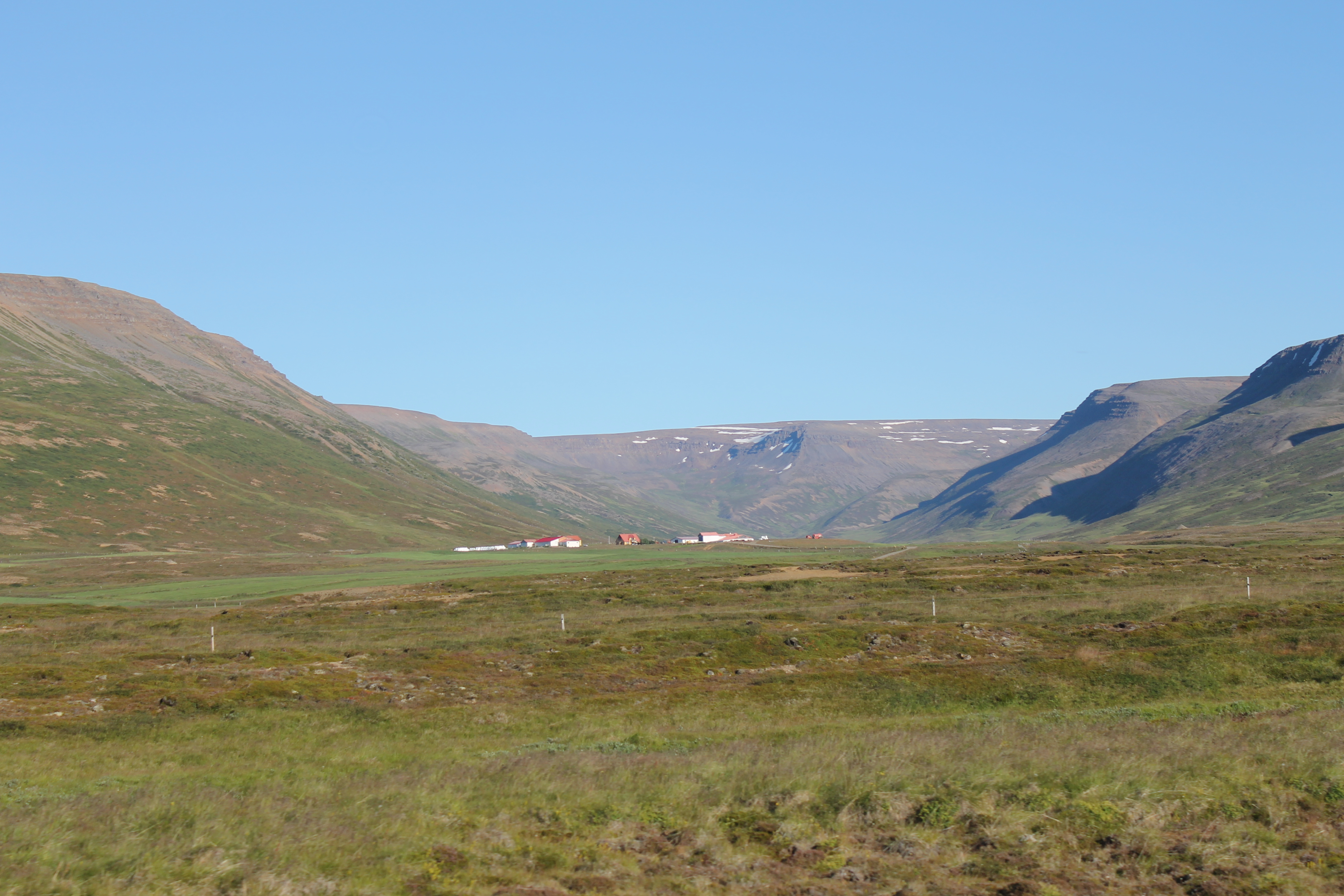 Hrolleifsdalur valley, Skagafjörður, Northern Iceland.